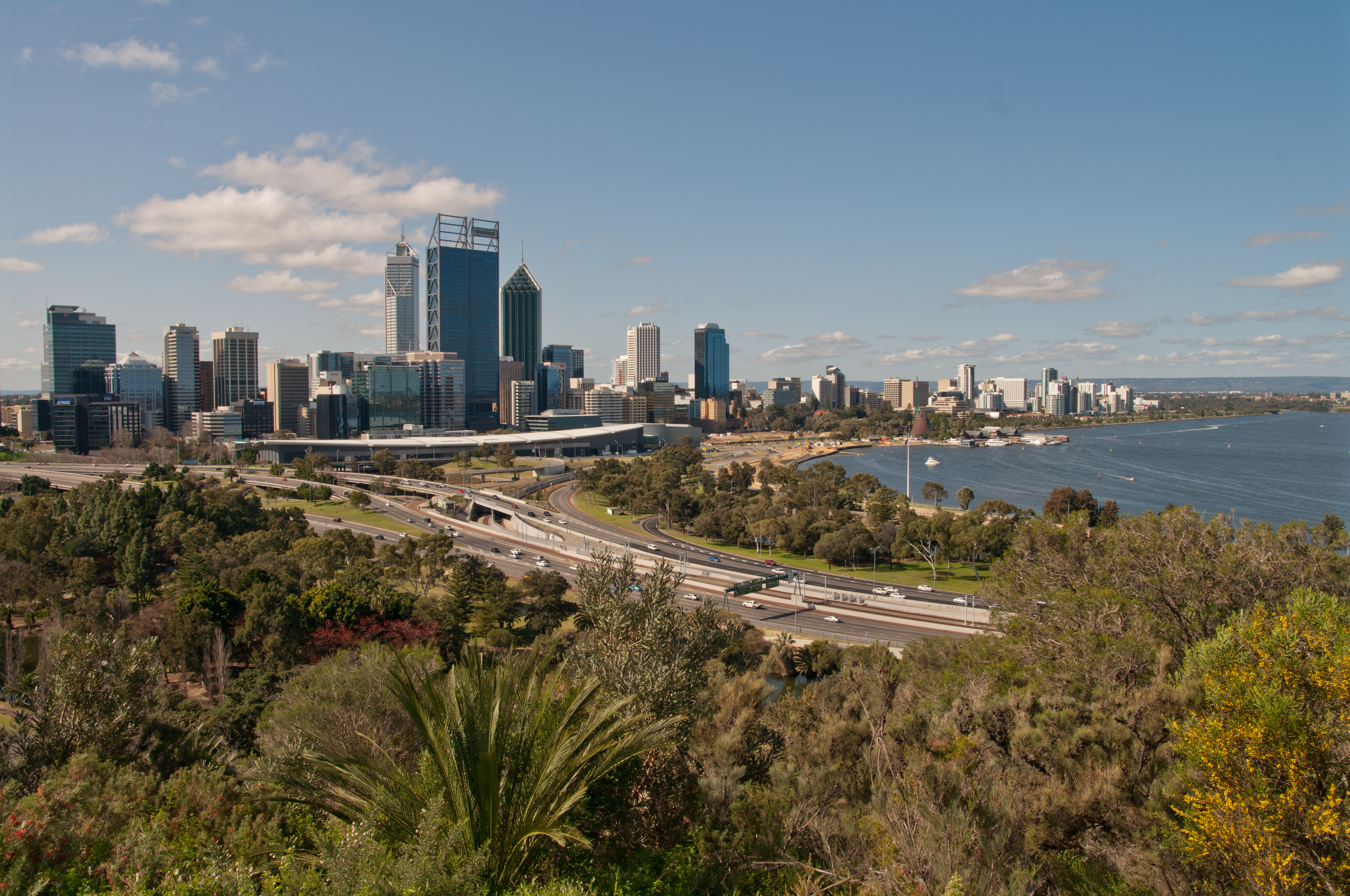 Perth CBD Skyline from Kings Park